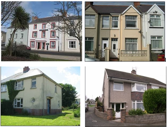 Montage of 4 photos of various architectural styles in Milford Haven, Pembrokeshire